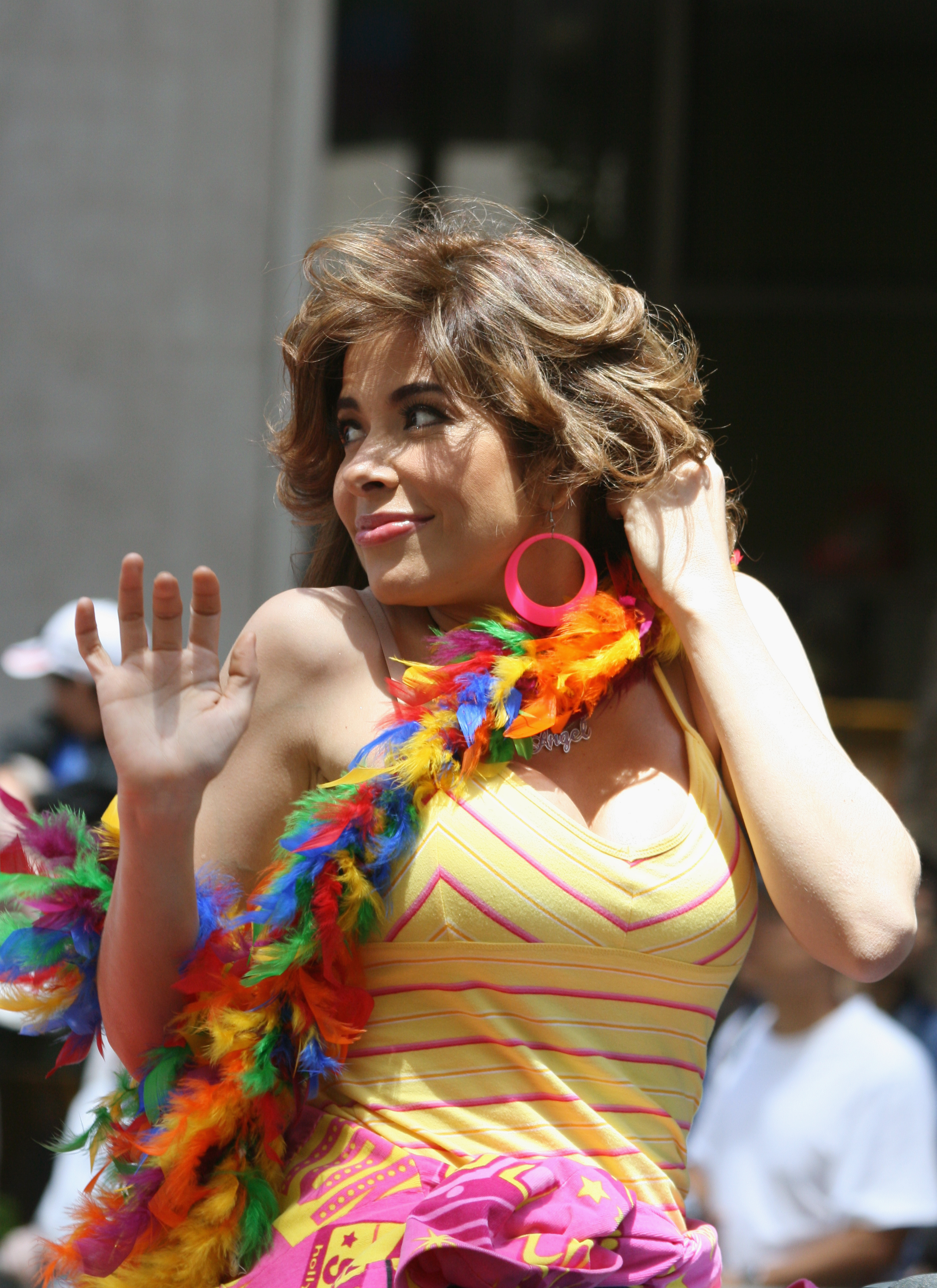 Gloria Trevi at Gay Pride Parade in San Francisco on June 23rd 2007